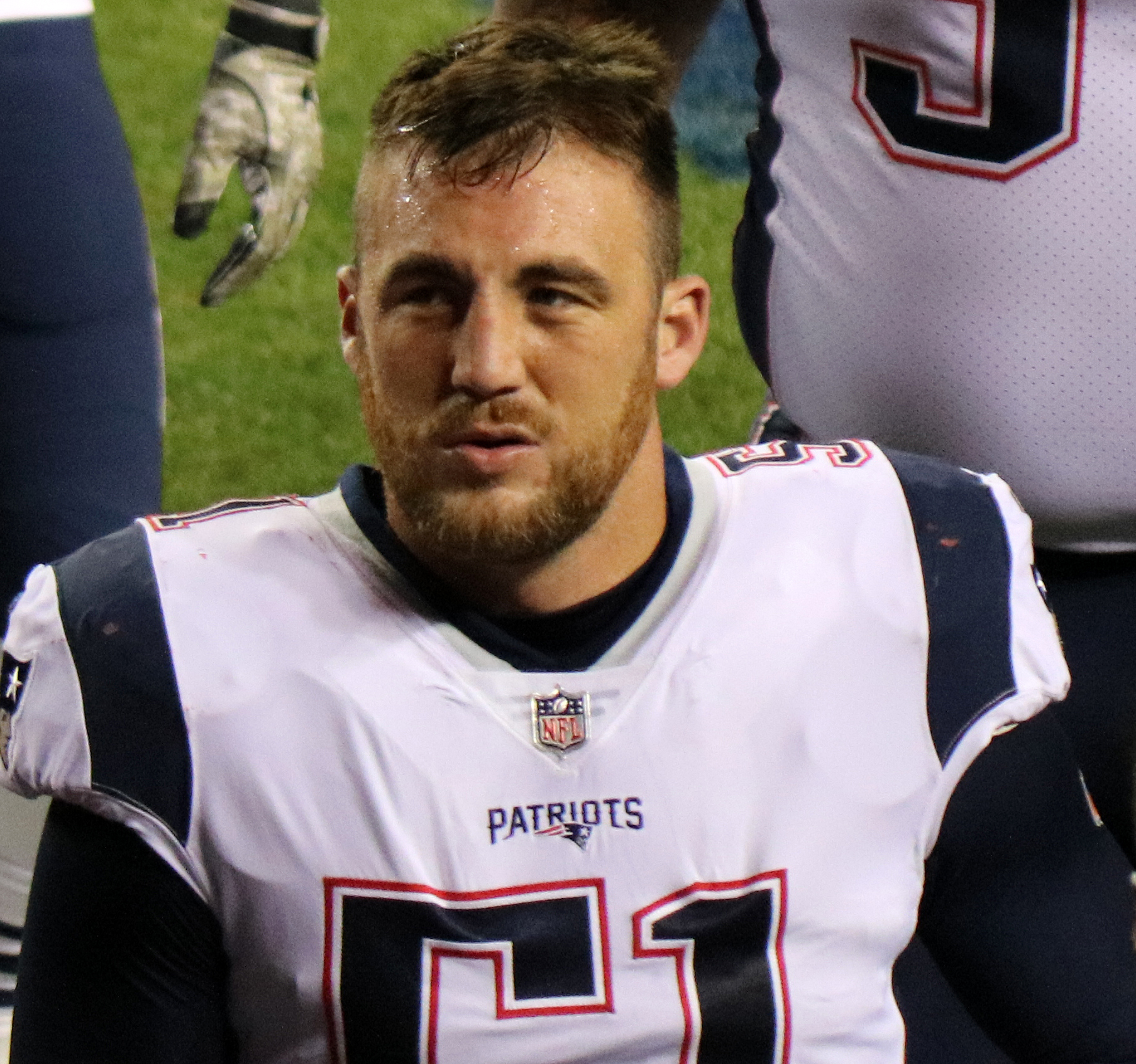 Trevor Reilly, a National Football League player.